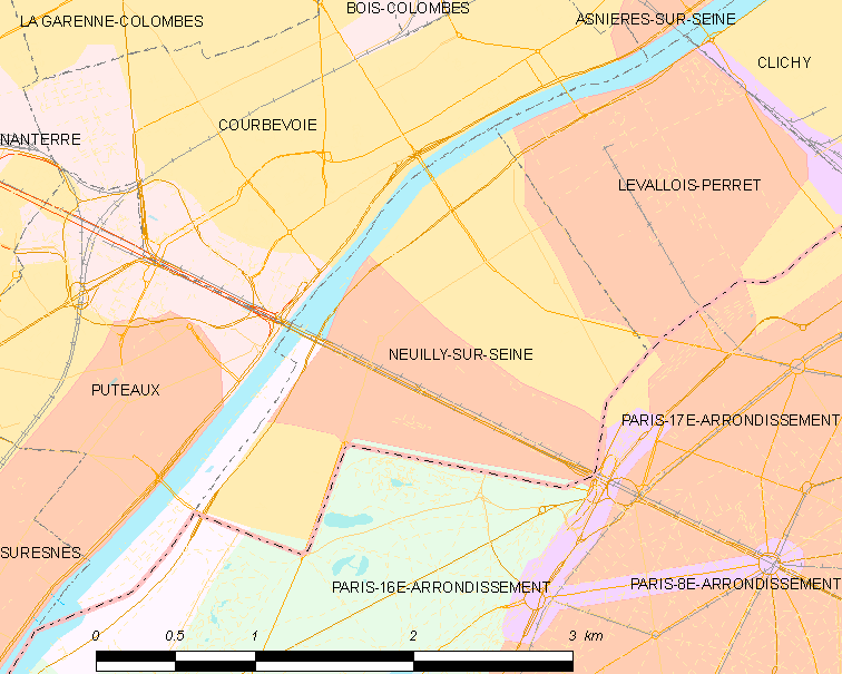 Map of French municipality Neuilly-sur-Seine